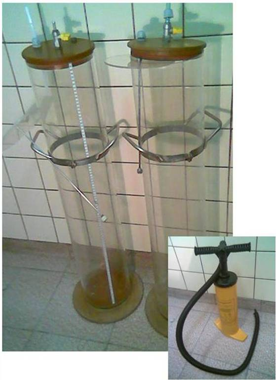 Odour_Sampling_3